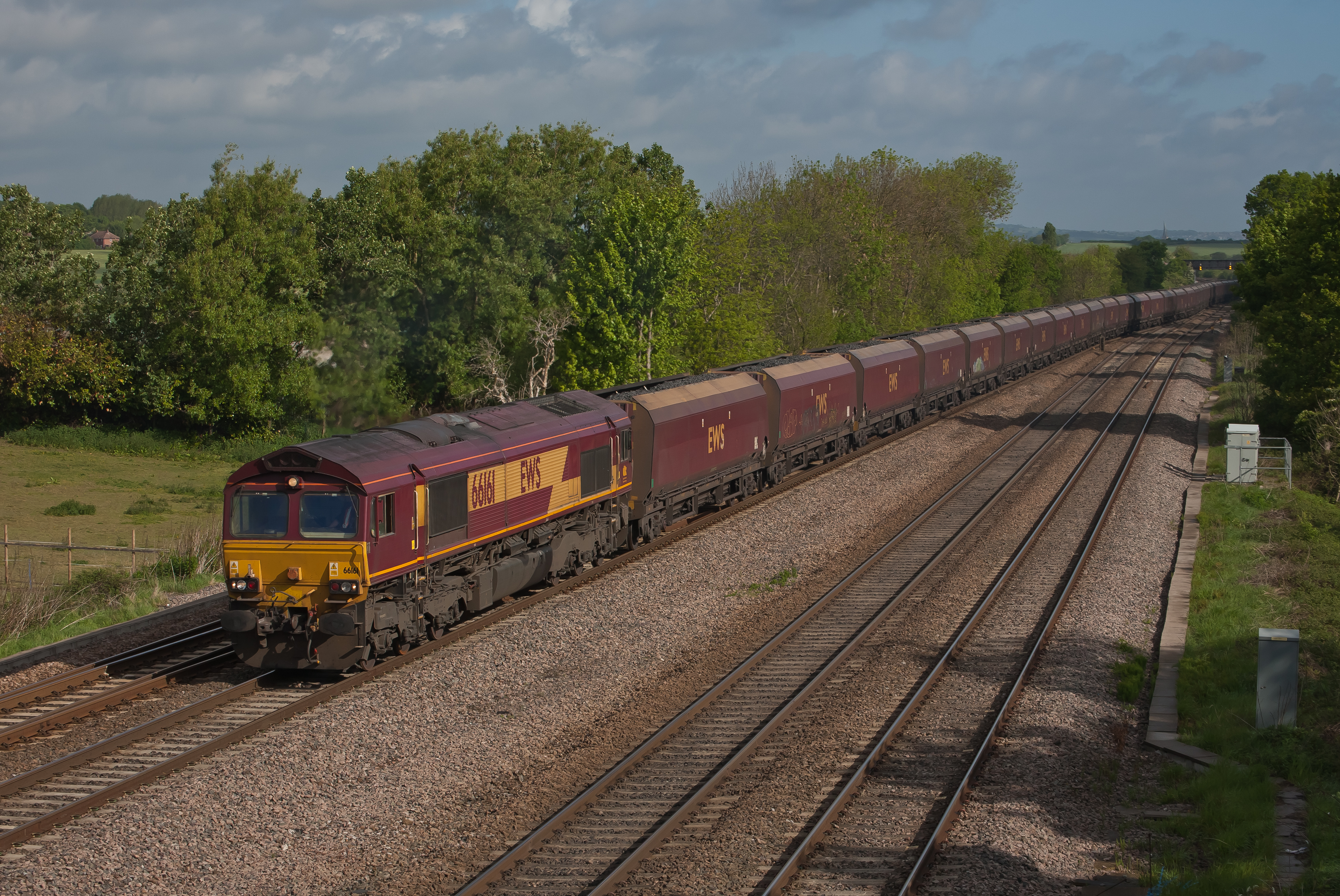 66161 passes Tupton working 6V67 Redcar - Margam coke